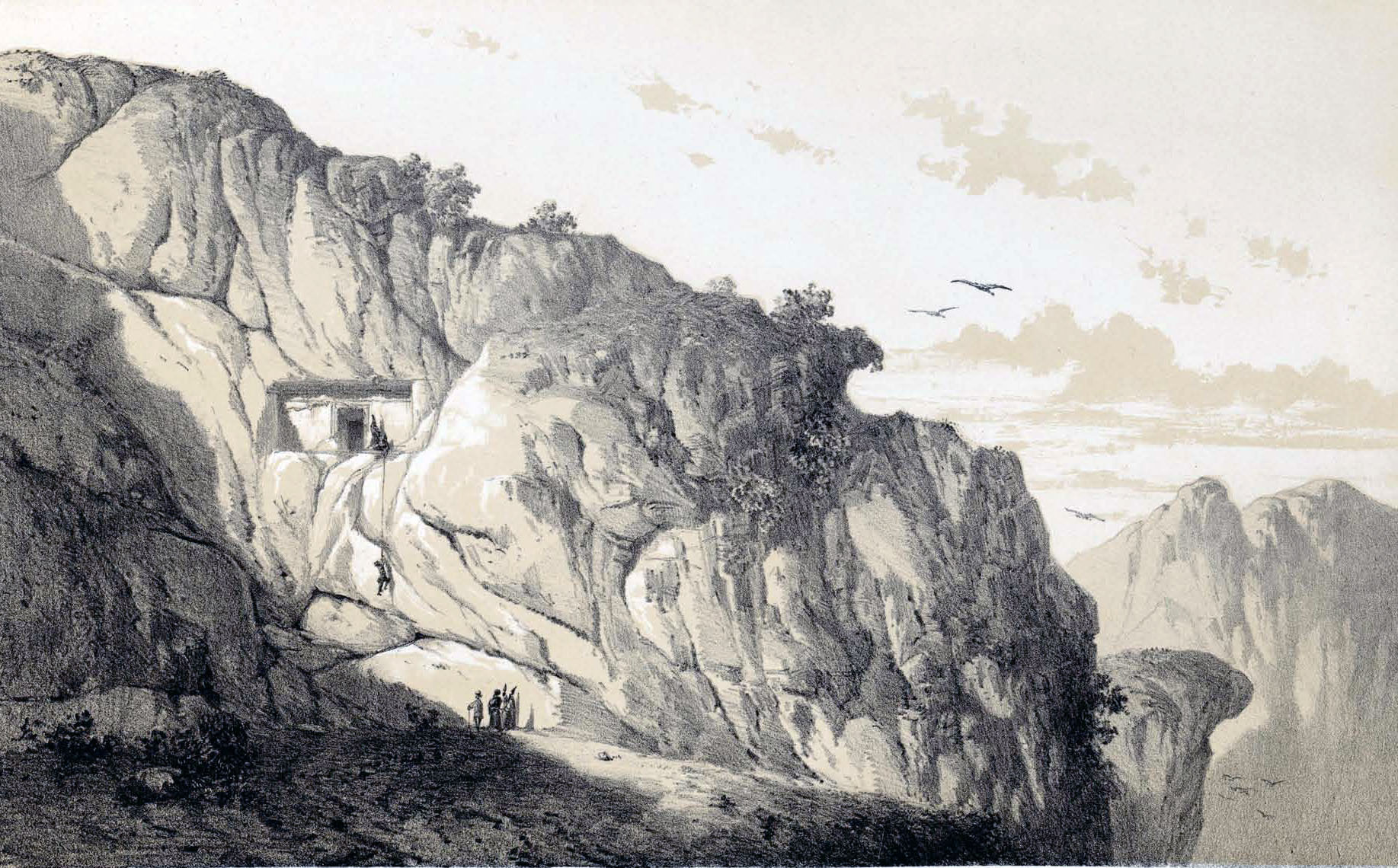 Tomb carved into the rock [Catacombs], Sahneh